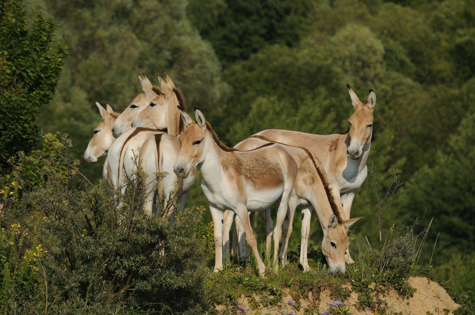 6 Kulans in semi wild life